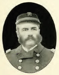 Lester A. Beardslee, Rear Admiral, USN, from A military album, containing over one thousand portraits of commissioned officers who served in the Spanish-American War published by L. R. Hamersly in 1902, p. 131.